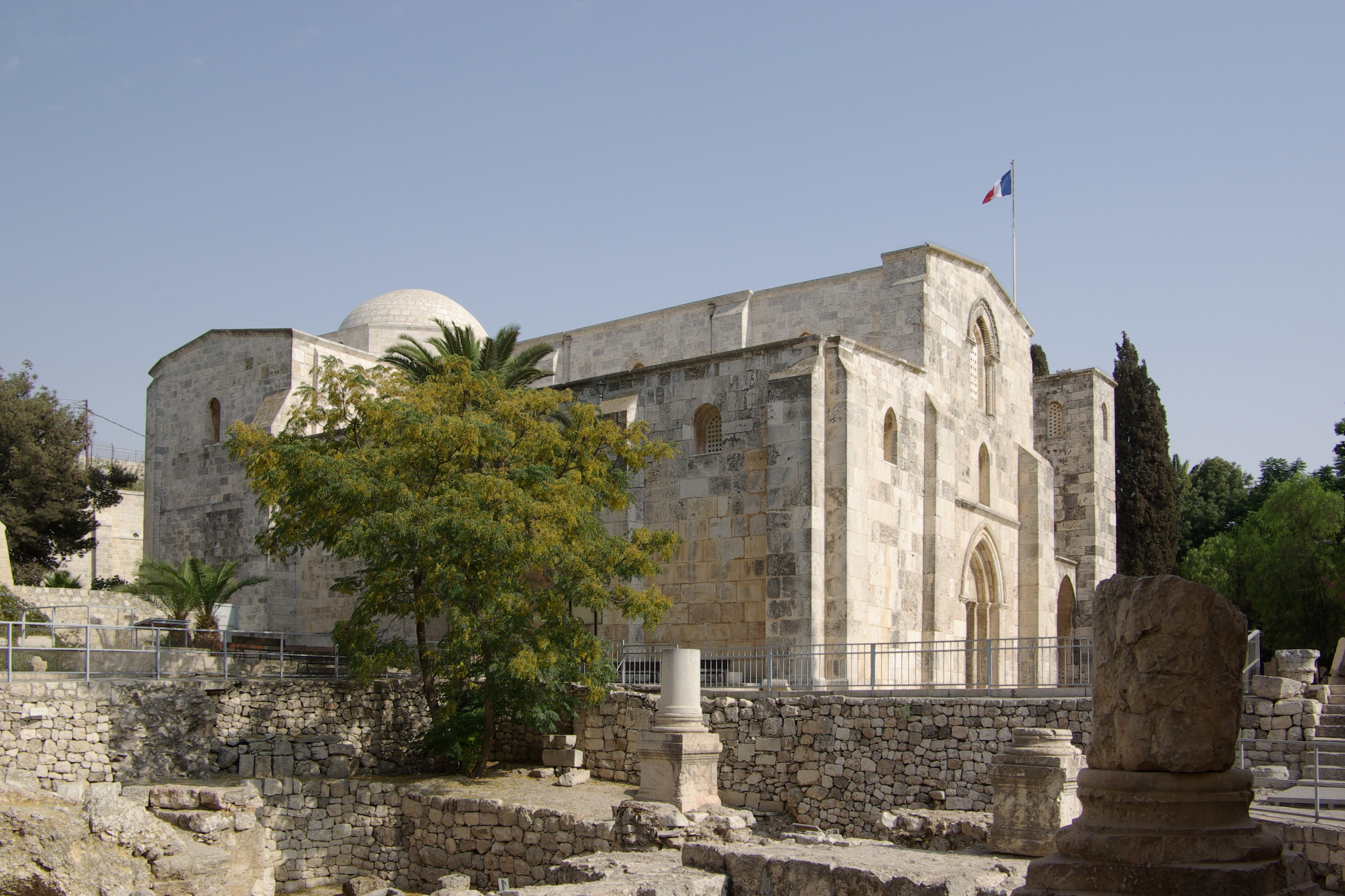 Jerusalem, St. Anna church.